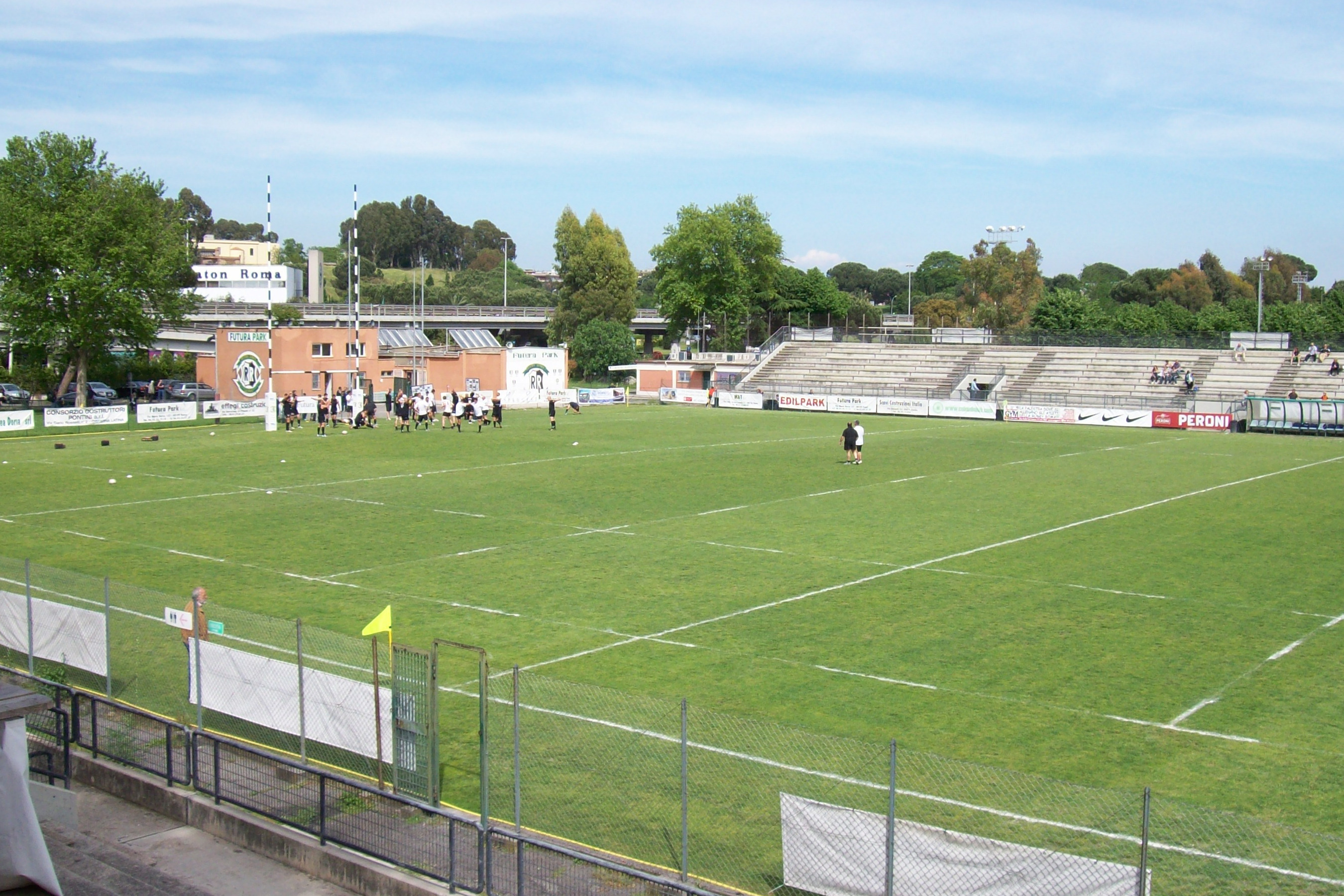 Stadio Tre Fontane in Rome. The stadium was the home field of the rugby union team Rugby Roma Olimpic until 2011